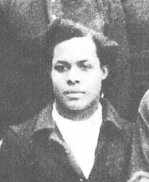 Constantin Henriquez was the first person of color to compete in the Olympic Games and by extension to win an Olympic gold medal as a rugby union footballer.